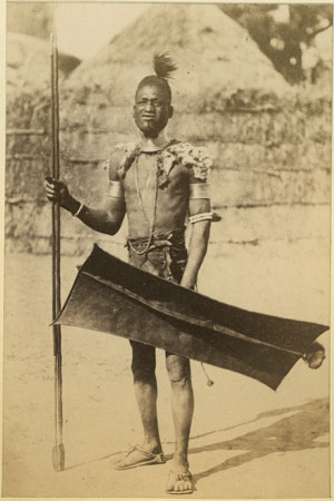 Acholi warrior